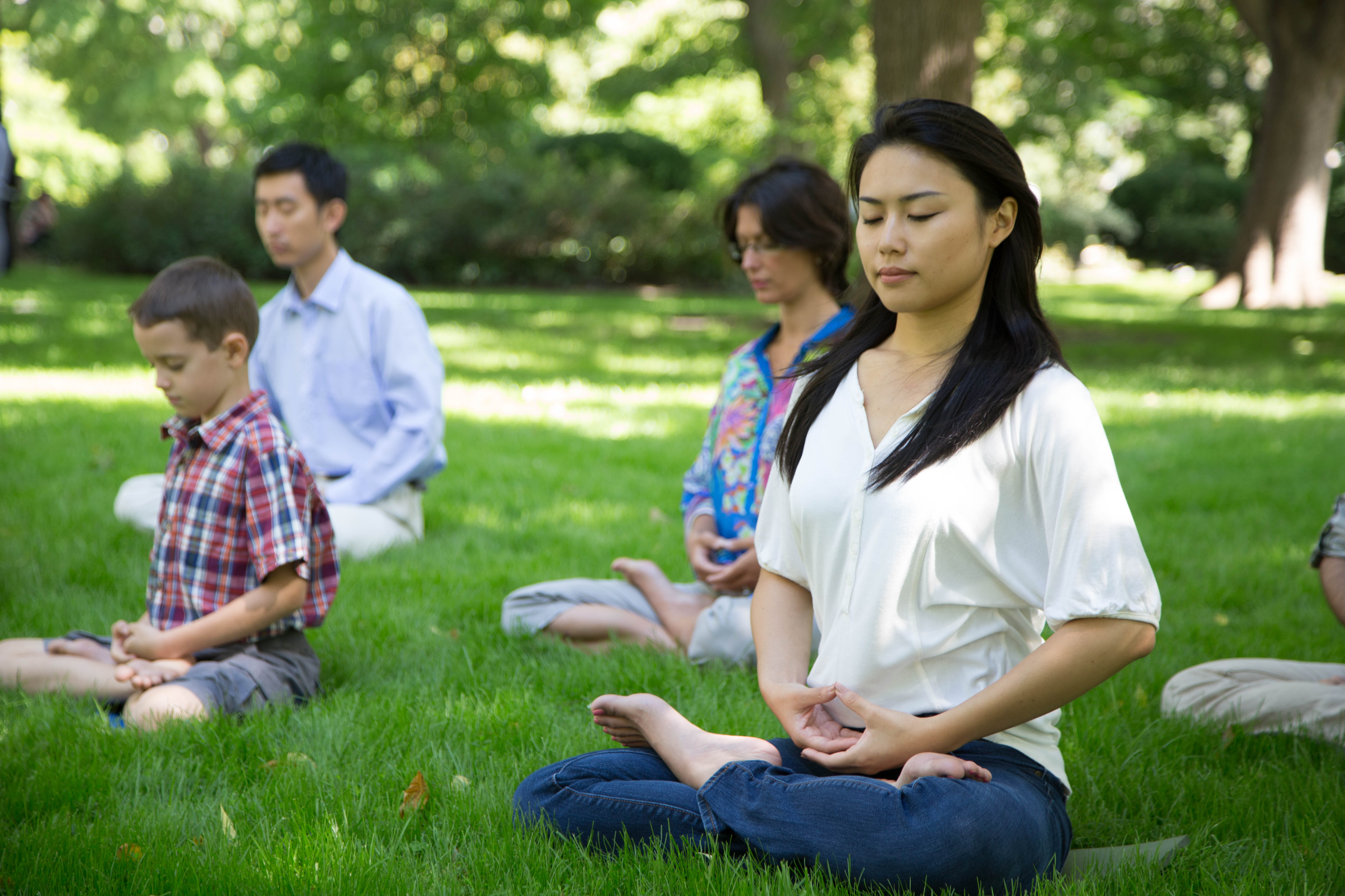 Falun Gong (also called Falun Dafa) practitioners hold their hands in the "jeiyin" position while doing the fifth exercise (a sitting meditation) of Falun Gong in Toronto.